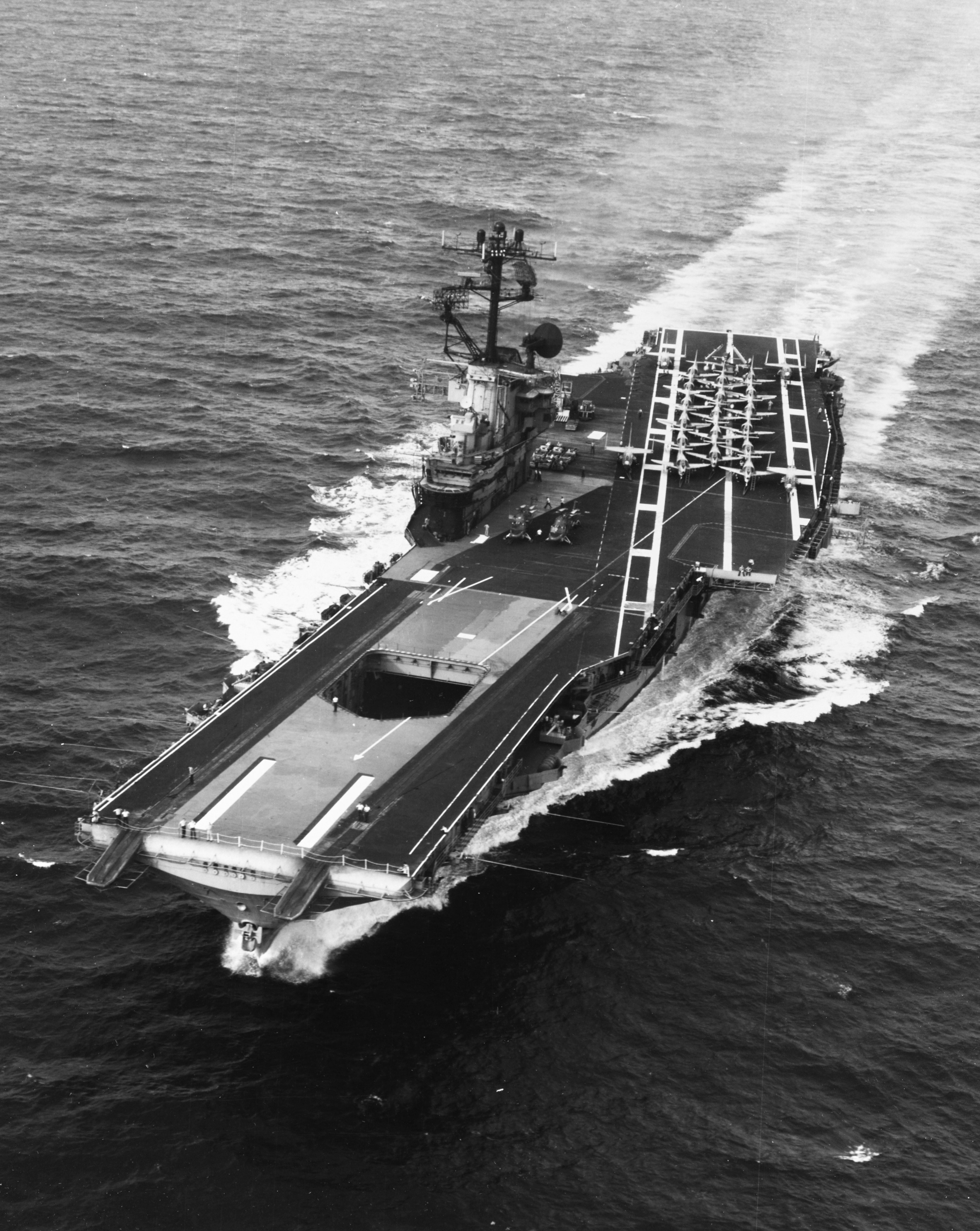 The U.S. Navy aircraft carrier USS Intrepid (CVS-11) underway in the South China Sea on 15 November 1968. Although being classified as an anti-submarine carrier, Intrepid made three deployments to Vietnam as an attack carrier with Attack Carrier Air Wing 10 (CVW-10) embarked, the one when the photo was taken, from 4 June 1968 to 8 February 1969, being the last one.